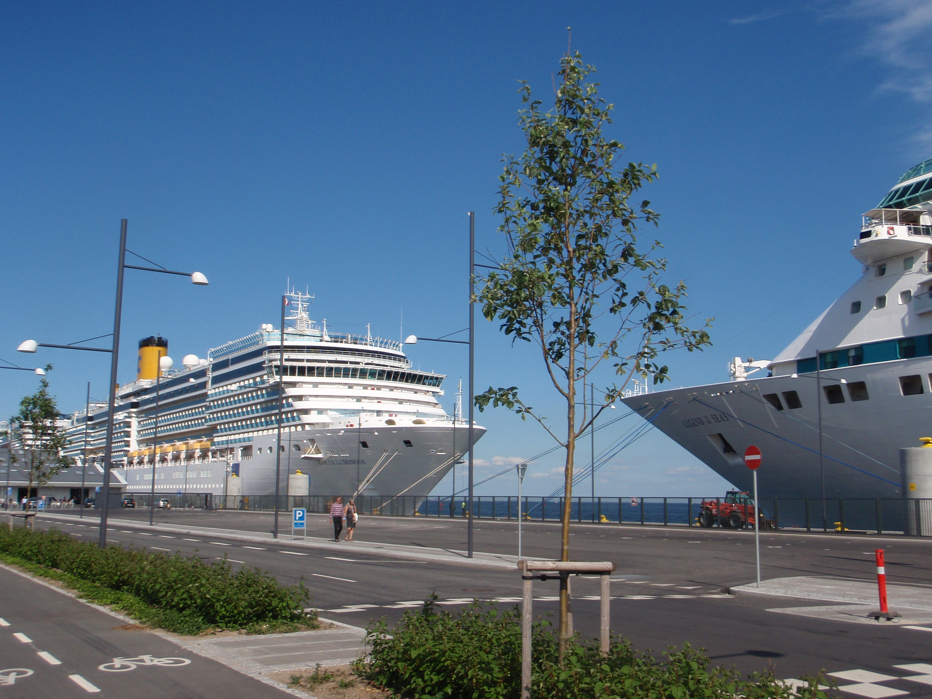 Legend of the Seas (right), Costa Luminosa and MSC Poesia at Oceankaj in the Port of Copenhagen